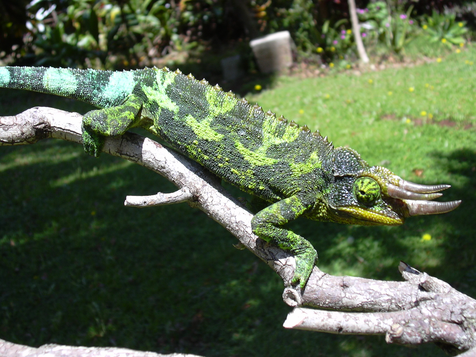 Hypochoeris radicata (Jacksons chameleon). Location: Maui, Makawao